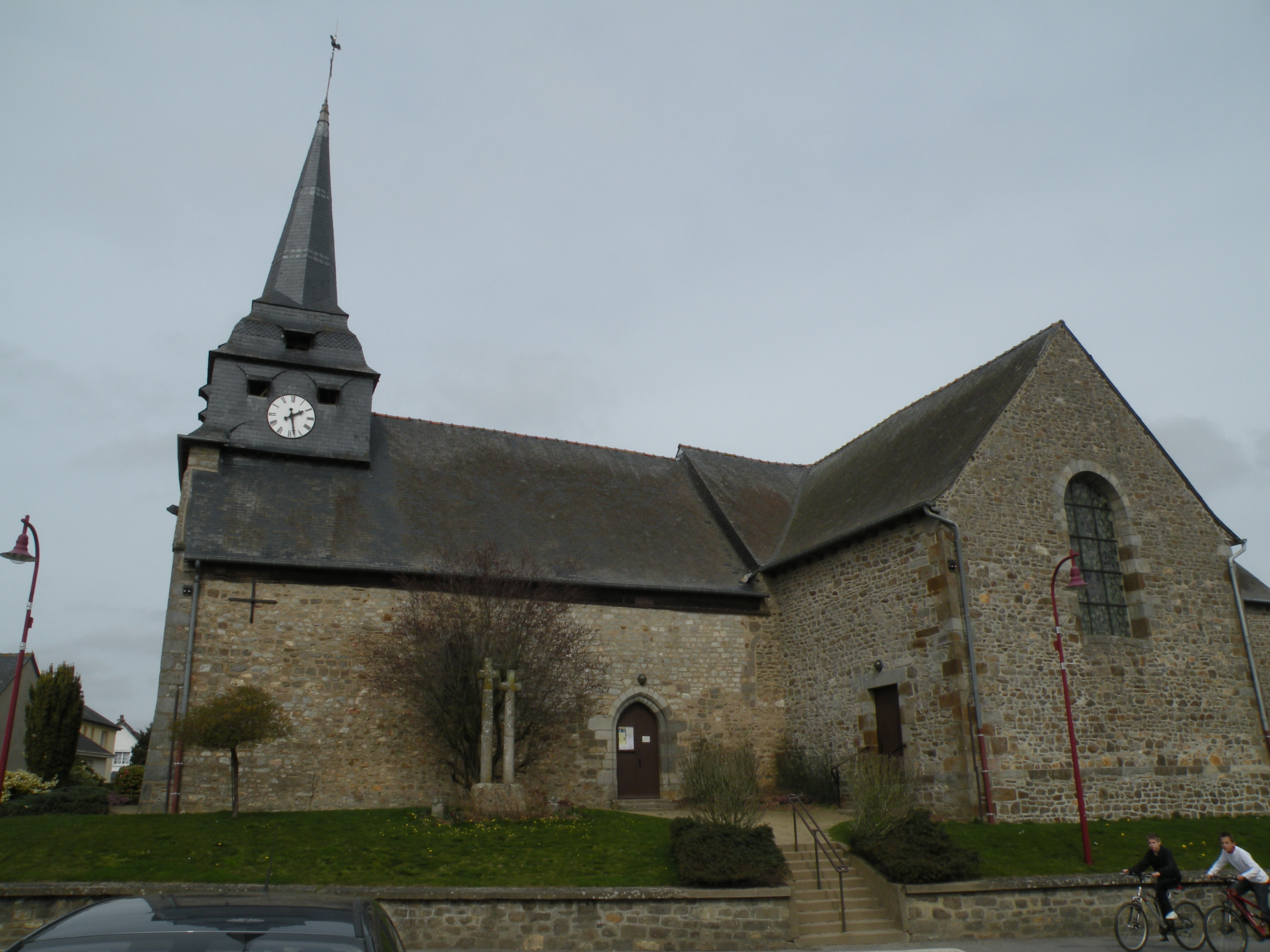 Saint-Melaine church in Vignoc.